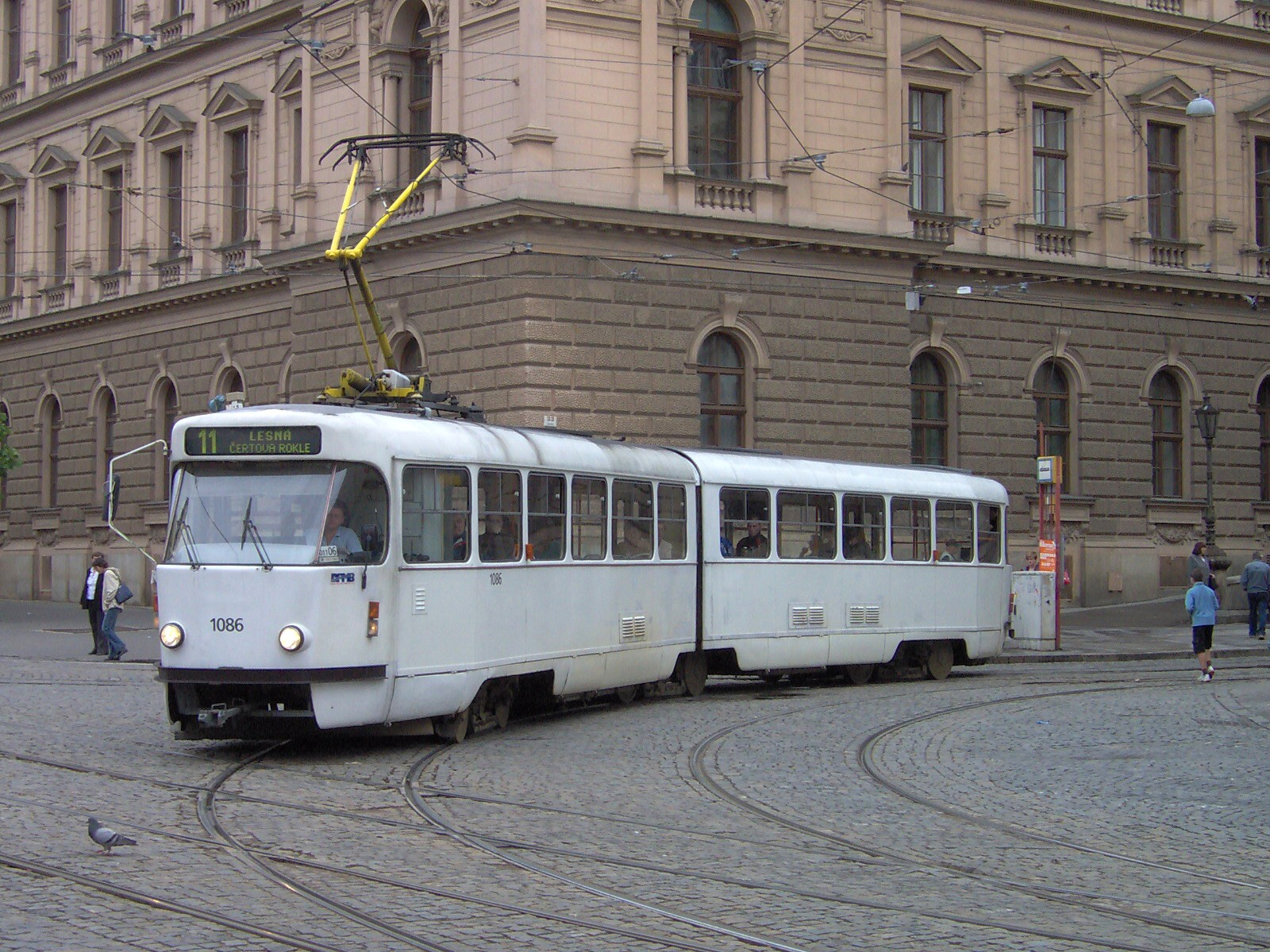 Tatra K2P tram in Brno, Czech Republic